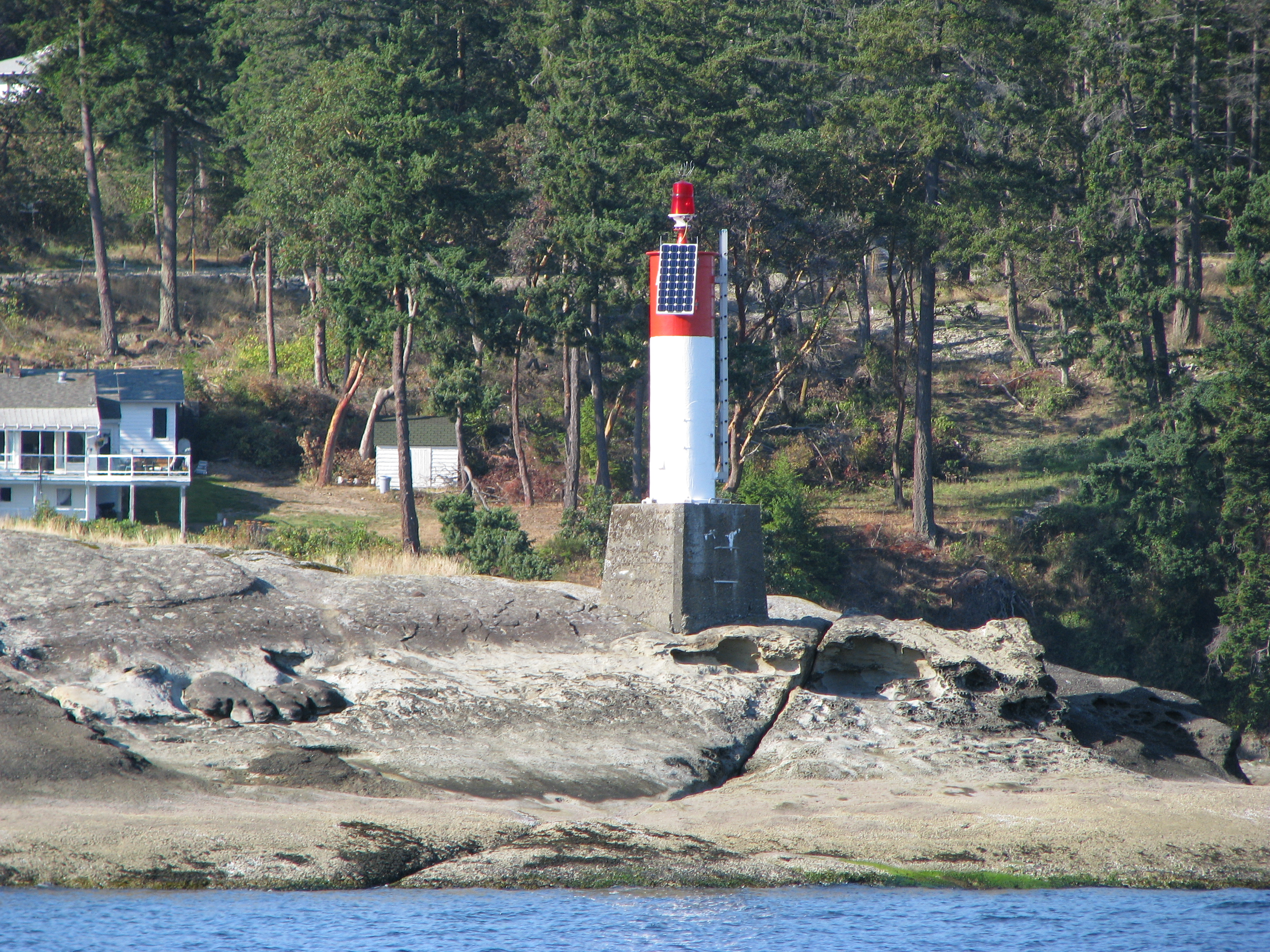 Daymark on eastern extremity of Jesse Island, Departure Bay, Nanaimo British Columbia. 49d 12m 28.4s N, 123d 56m 35.2s W.